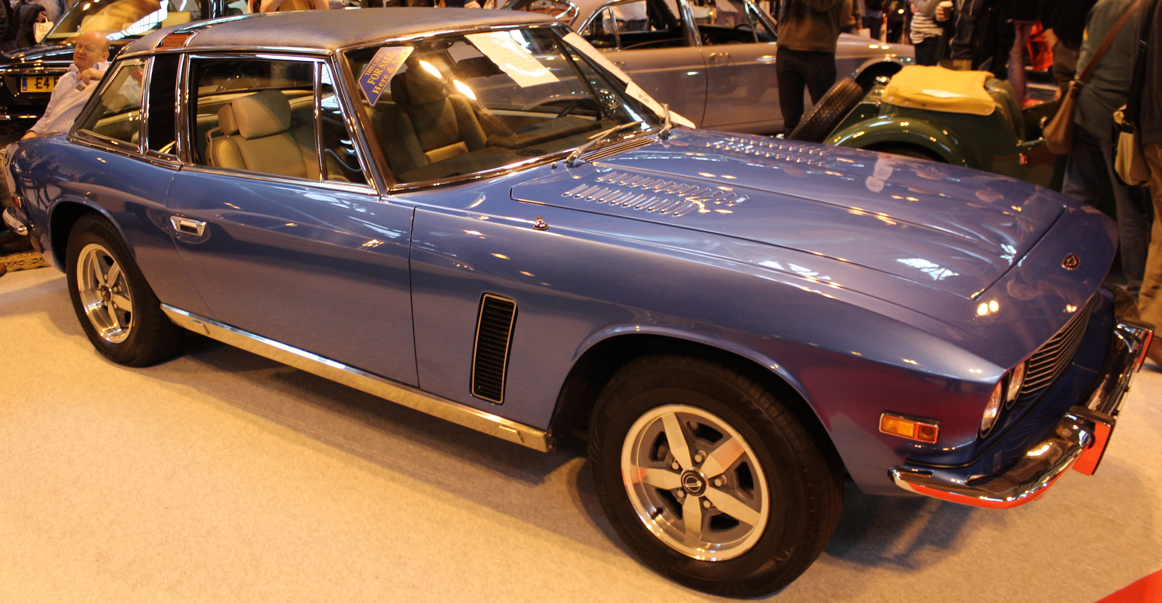 Jensen Interceptor Mark III coupé NEC Classic Car Show 2014